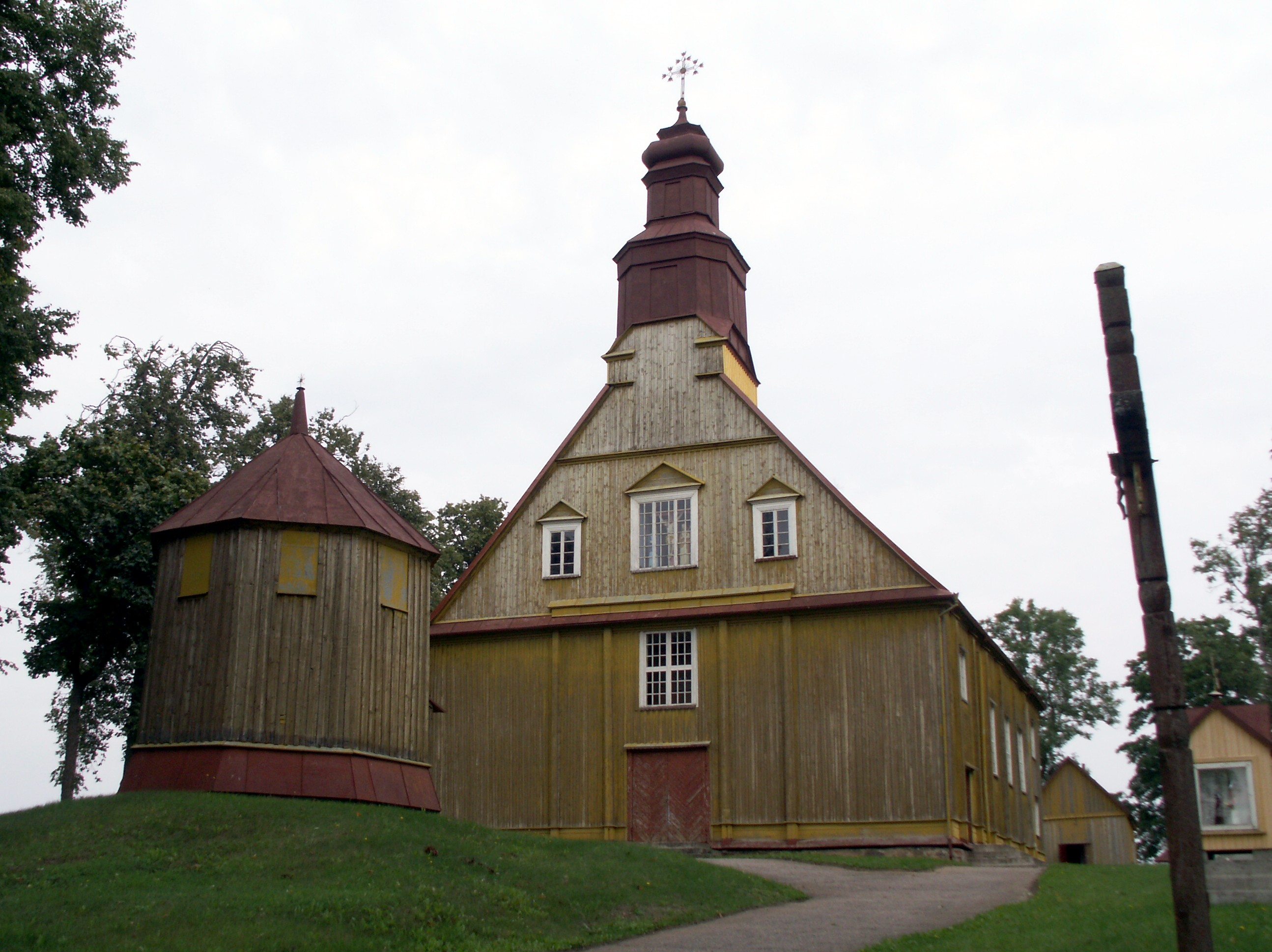 Pavandenė church, Lithuania